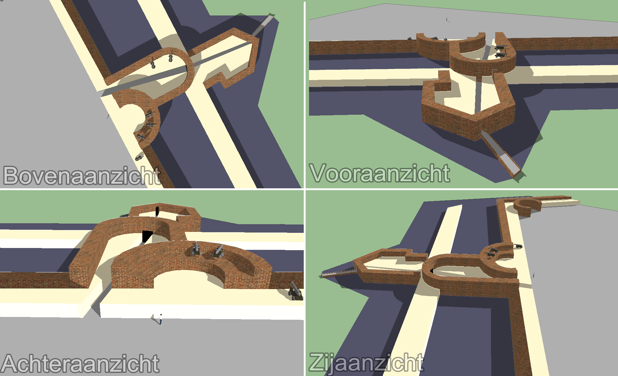 Rconstruction of "misterpoort" at Bredevoort, from old map (See: file:Brefurtum Capta Anno 1597 - Capture of Bredevoort 1597 (J.Blaeu 1649).jpg on commons.)